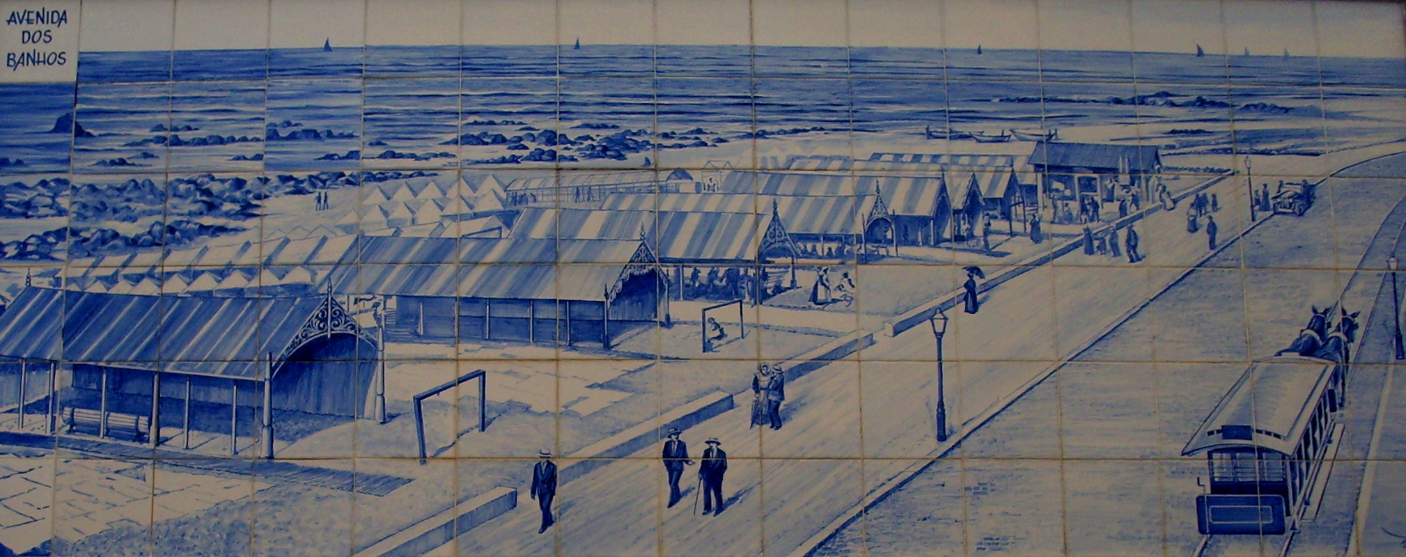 Avenida dos Banhos (baths avenue) in Povoa de Varzim, Portugal